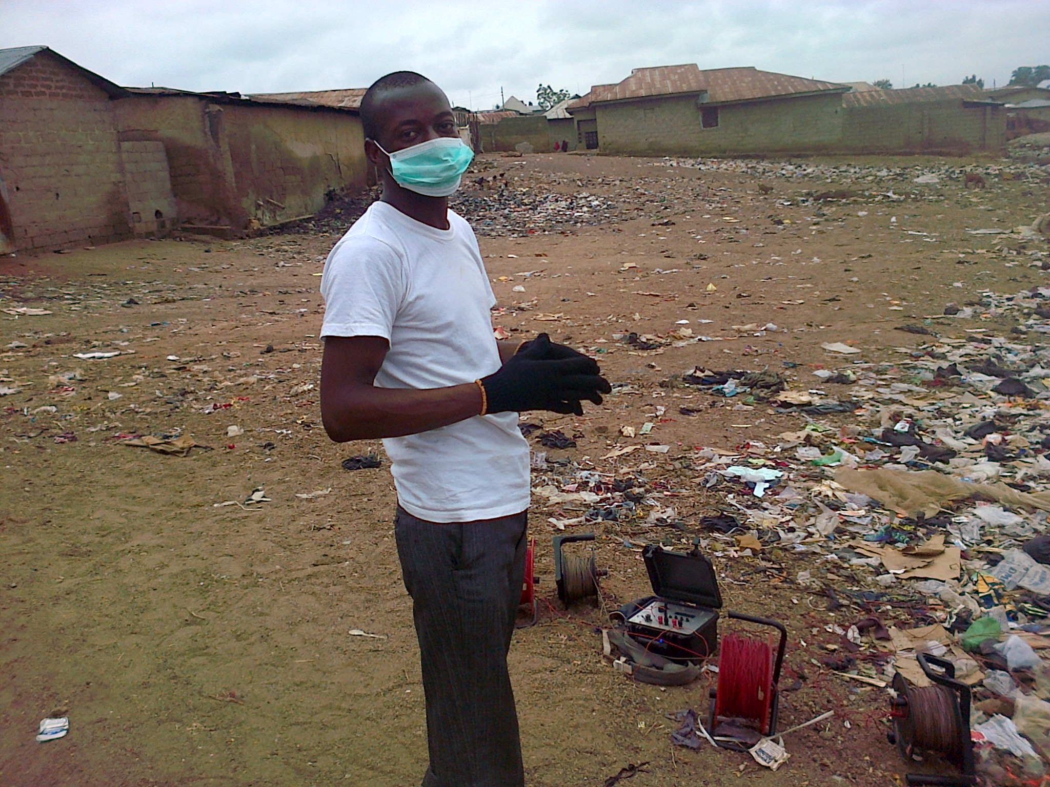 African People at Work - Geophysical Investigation of Dumpsite Leachate Plumes This is an image of "African people at work" from Nigeria